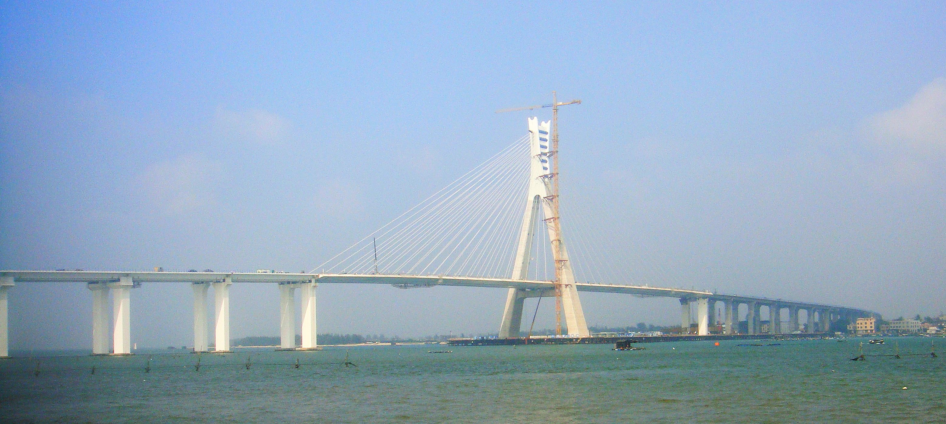 Puqian Bridge, Hainan, China, viewed from Beigang Island